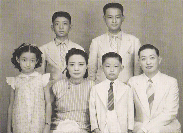 Mei Lanfang Family portrait in 1940s. 中文（中国大陆）: 梅兰芳全家福照片，前排自左至右为：梅葆玥、福芝芳、梅葆玖、梅兰芳；后排左起为梅绍武、梅葆琛。1940年代摄。